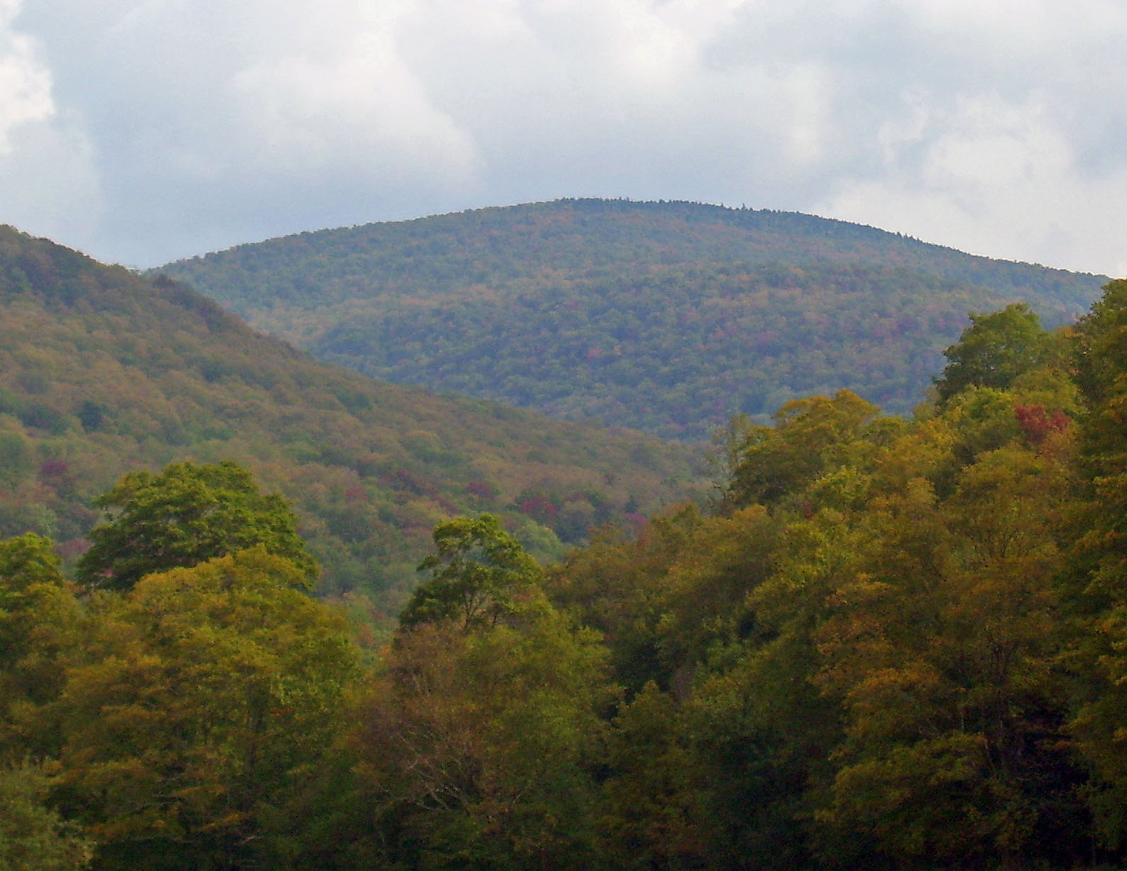 Balsam Lake Mountain, westernmost Catskill High Peak, seen from the southwest